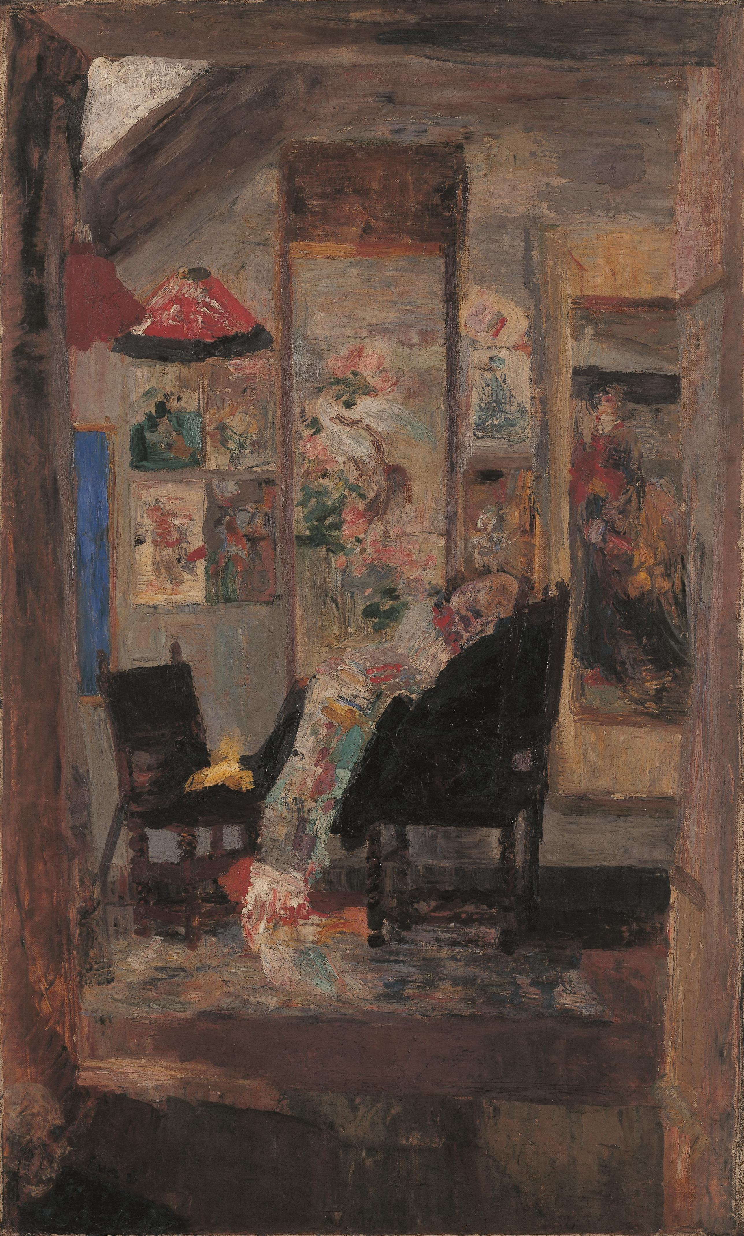 painting by James Ensor, collection Museum of Fine Arts Ghent / King Baudouin Foundation